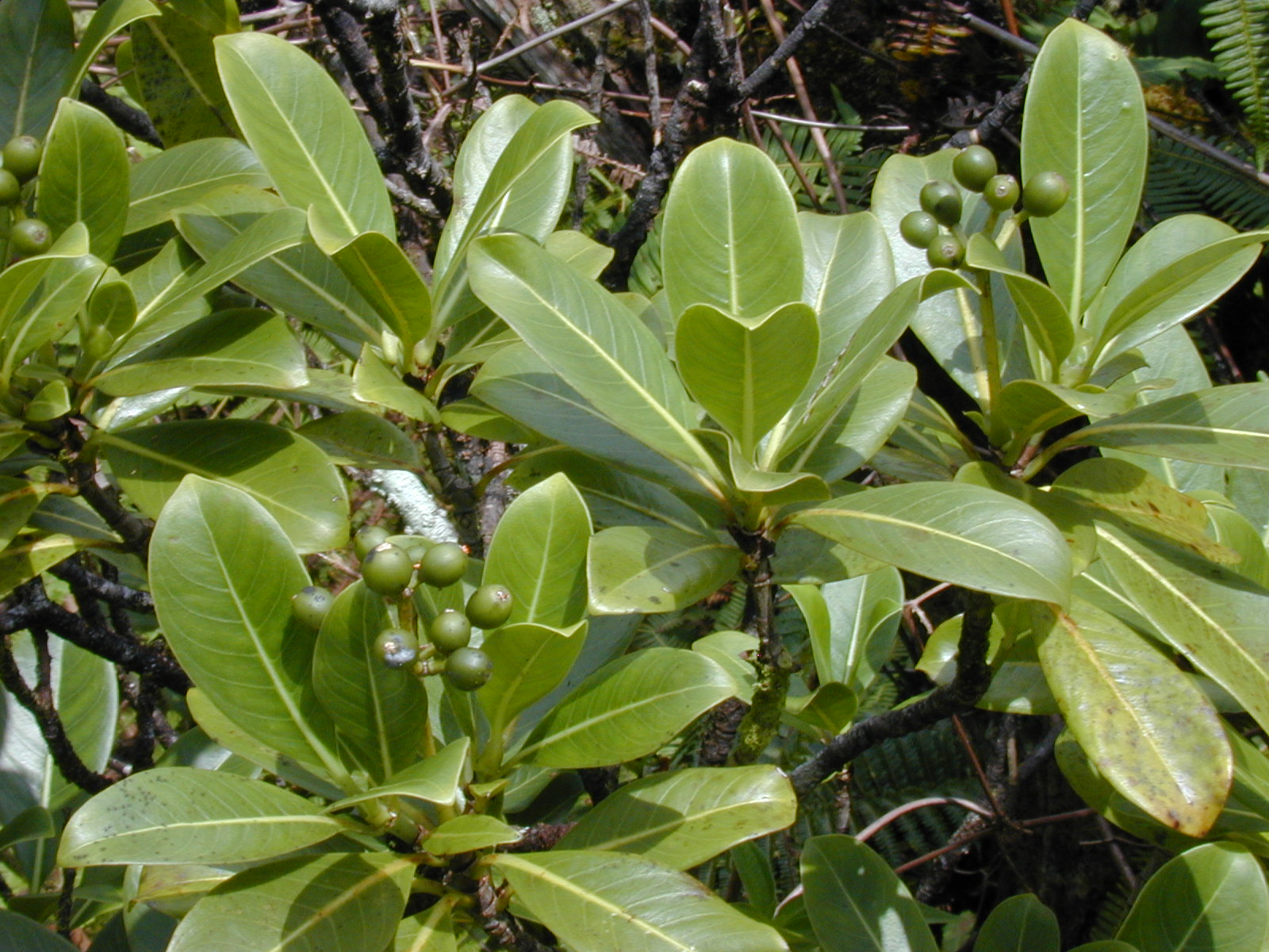 Psychotria mariniana (habit fruits). Location: Maui, Waihee Ridge Trail